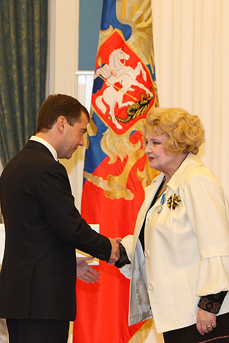 THE KREMLIN, MOSCOW. Ceremony presenting state decorations. Artistic director of the Moscow Artistic Academic Theatre Tatiana Doronina received an Order of Merit.